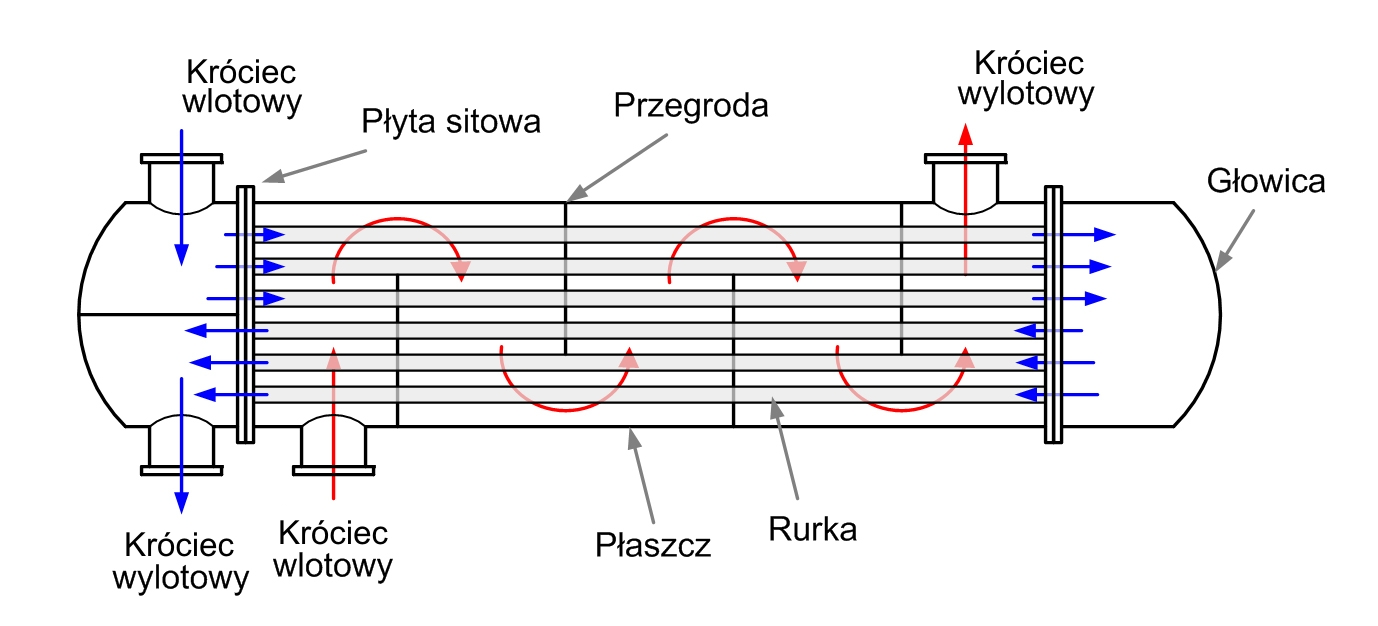 BEM Type Shell and Tube Heat Exchanger (with Two Tube Passes)